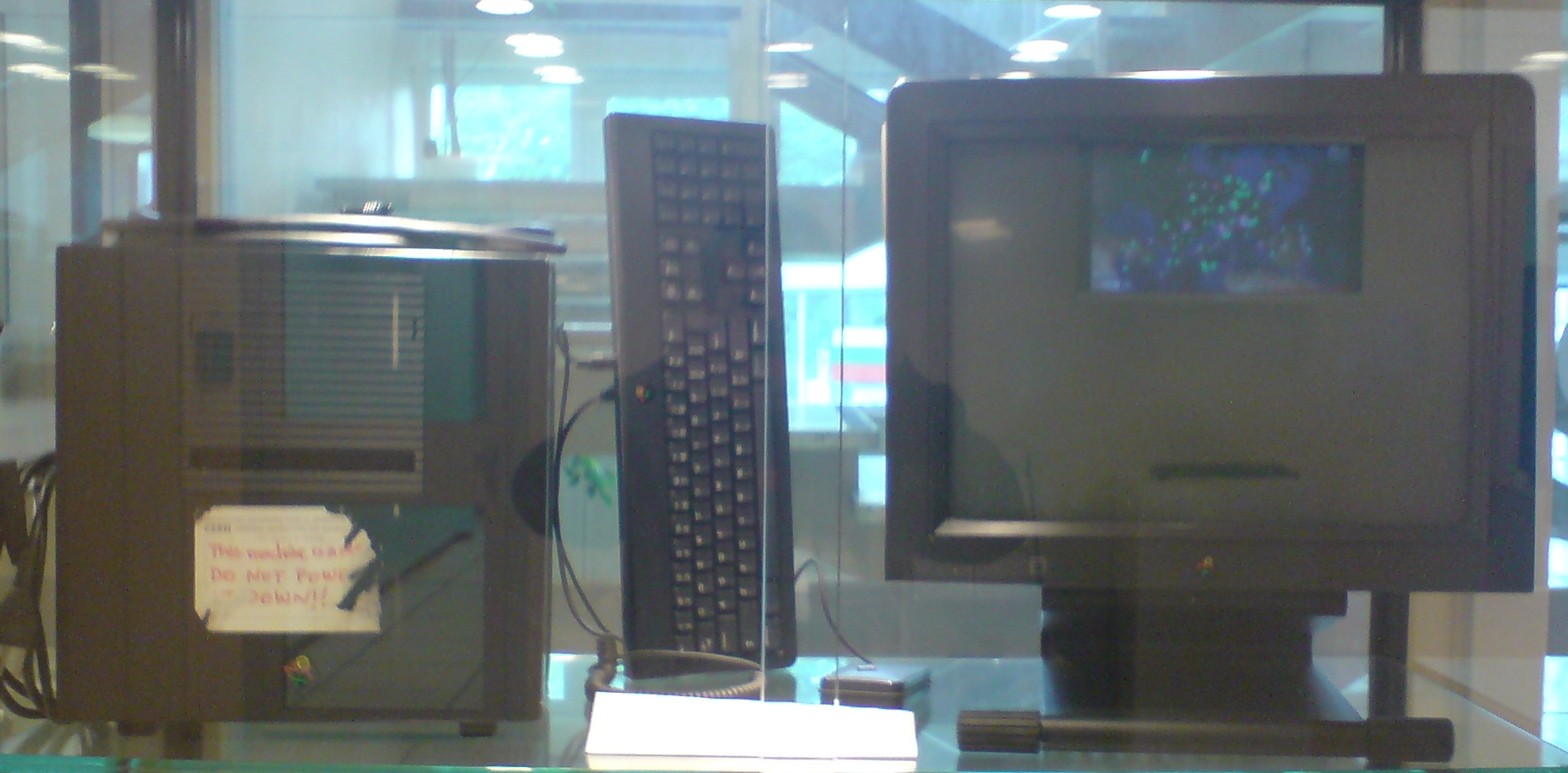 This NeXTcube was used by Berners-Lee at CERN as the first Web server.